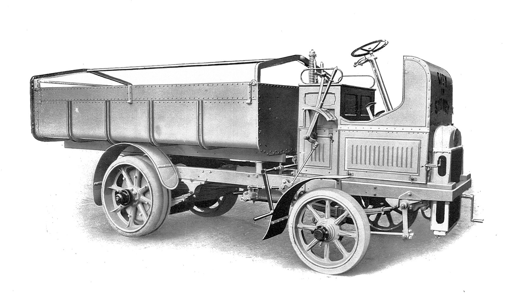 Leyland petrol road waggon (Rankin Kennedy, Modern Engines, Vol V).jpg